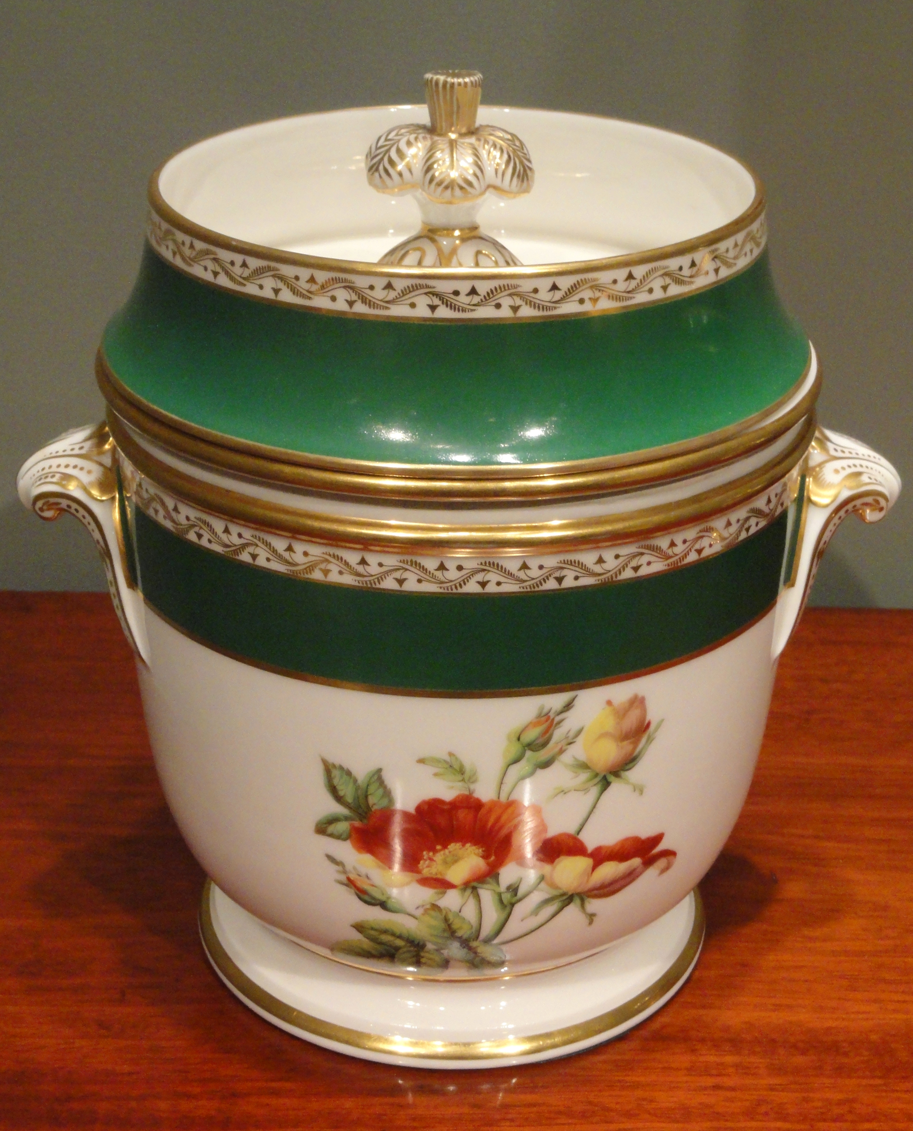 Exhibit in the National Gallery of Art, Washington, DC, USA. This work is in the public domain because the artist died more than 70 years ago.